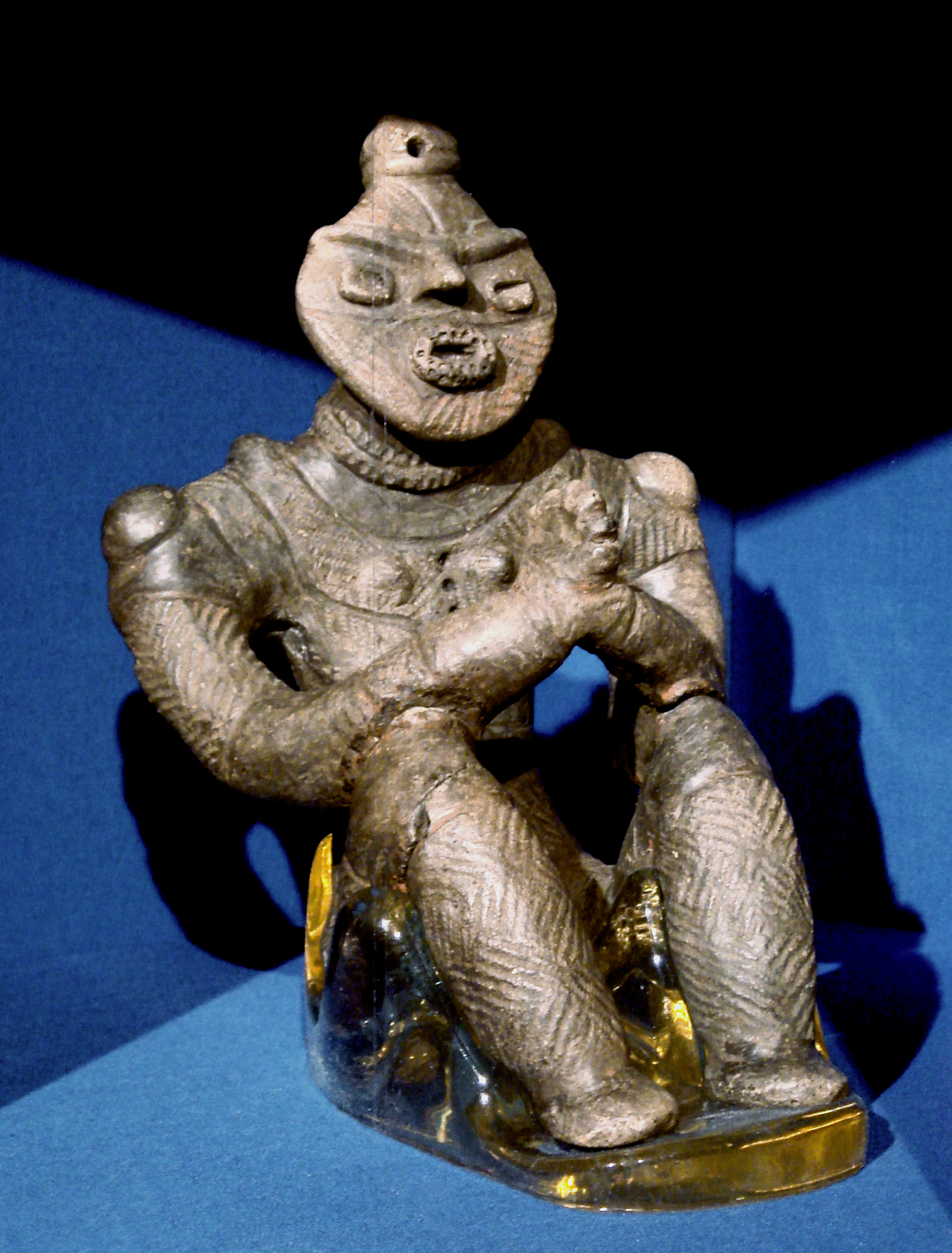 Late_Jomon_clay_statue_Kazahari_I_Aomoriken_1500BCE_1000BCE: an other aspect in color of that piece from the British Museum